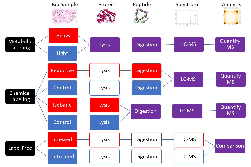 Examples of mass spec workflows for quantitative proteomics.